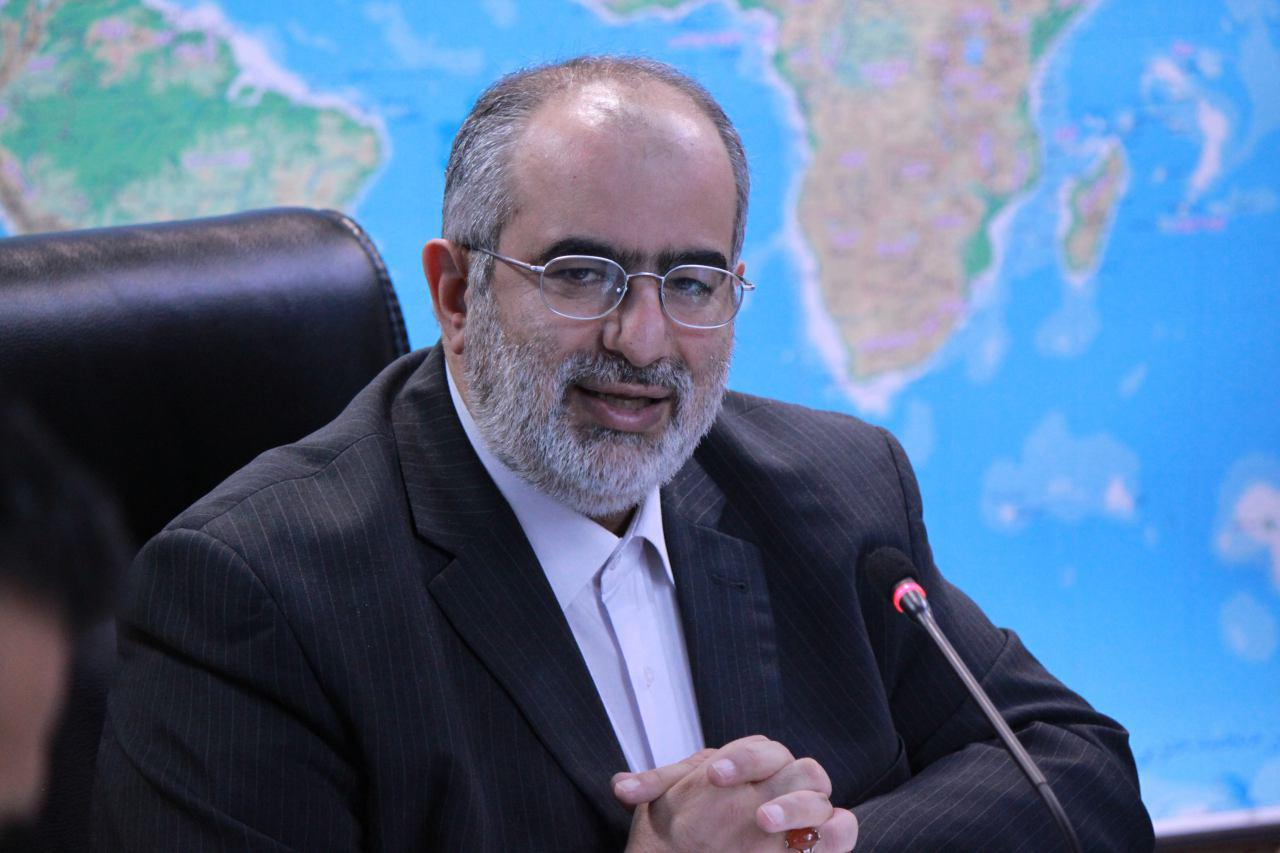 Hesamoddin Ashna